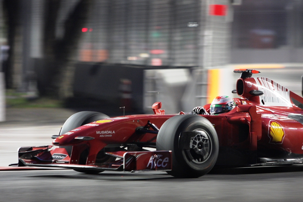 Giancarlo Fisichella driving for Scuderia Ferrari at the 2009 Singapore Grand Prix.